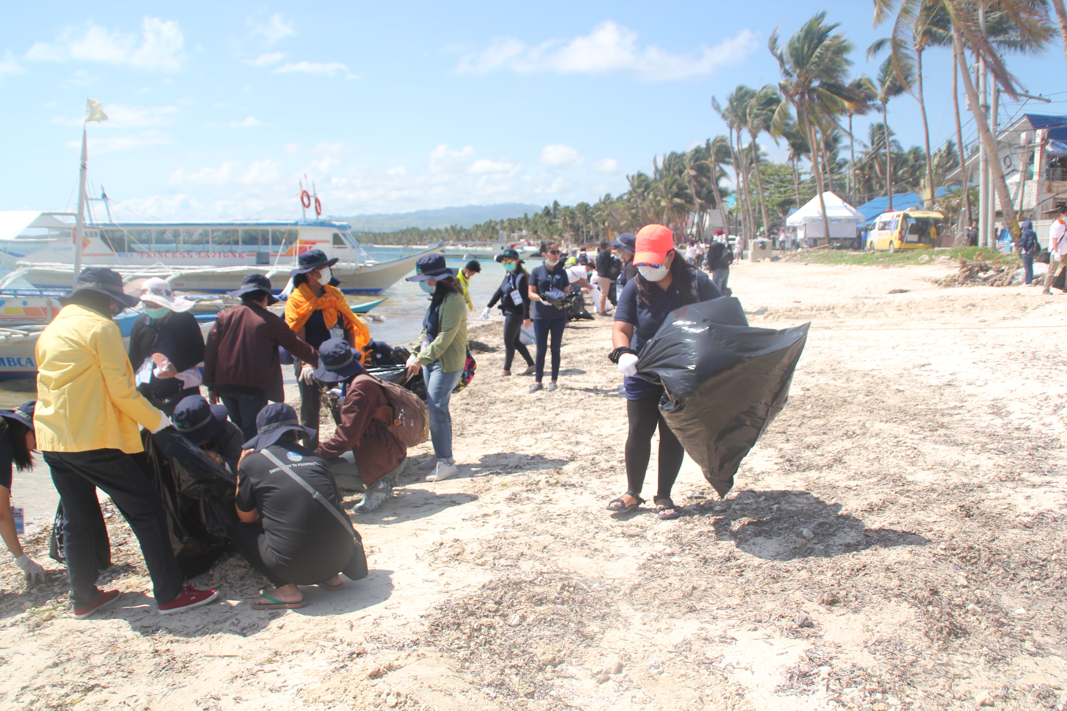 EMB personnel volunteered to clean up Boracay on April 26, 2018 during the closure of Boracay.